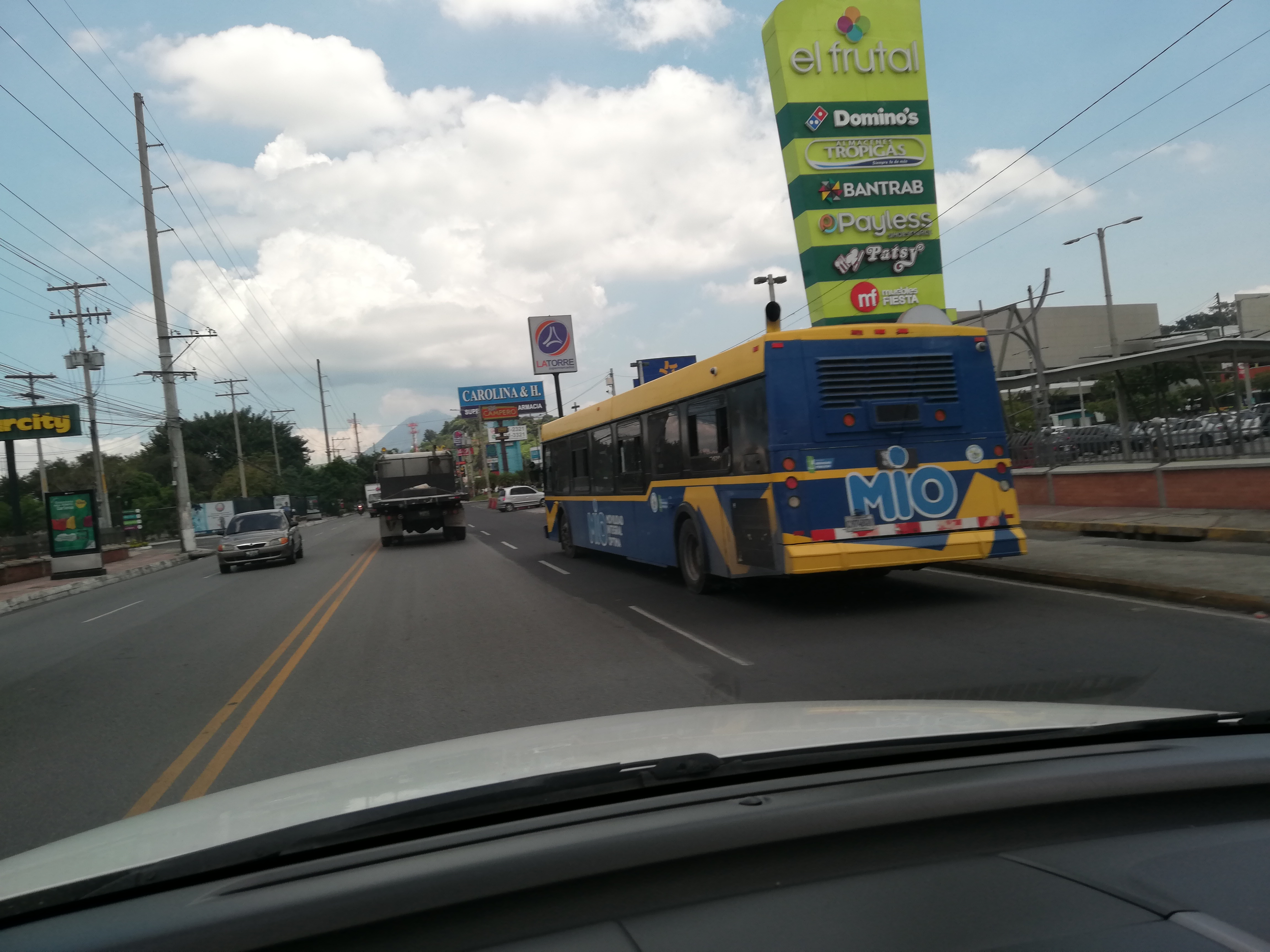 Boulevard El Frutal, Villa Nueva